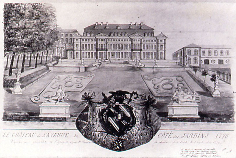 Château de Saverne-side gardens 1770